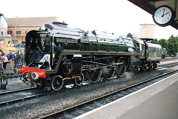 BR Riddles Standard Class "8P" 4-6-2 No.71000 Duke of Gloucester with BR1J tender at Minehead on the West Somerset Railway, Williton, 03/10.